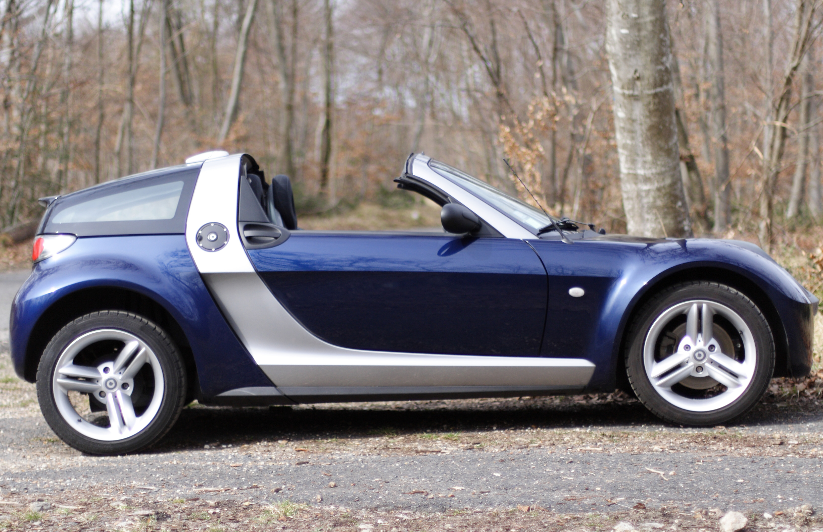 Smart Roadster Coupé. This is a 2004 model, serial number 37040 out of 43091, with a Star Blue (C85L/EAF) paint and grey Tridion (C02L/EB2). It is equipped with sport pack and comfort pack. Picture taken with a Canon EOS 350D and Canon 50mm F1.4 @ F1.4.